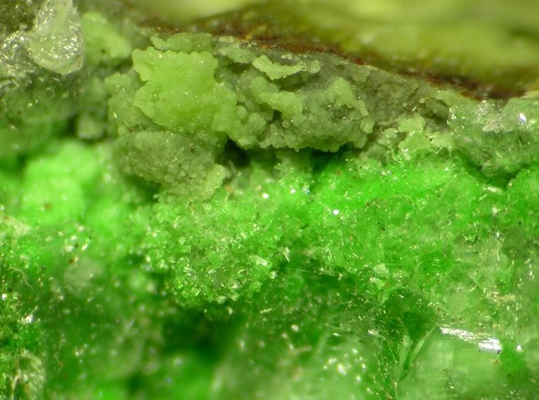 Kambaldaite Locality: Otter Shoot Nickel mine, Otter Juan mine, Kambalda Nickel deposit, Kambalda, Coolgardie Shire, Western Australia, Australia Green crystals of Kambaldaite together with some light green waxy Gaspéite. Field of view 3 mm. Specimen and photo Leon Hupperichs.